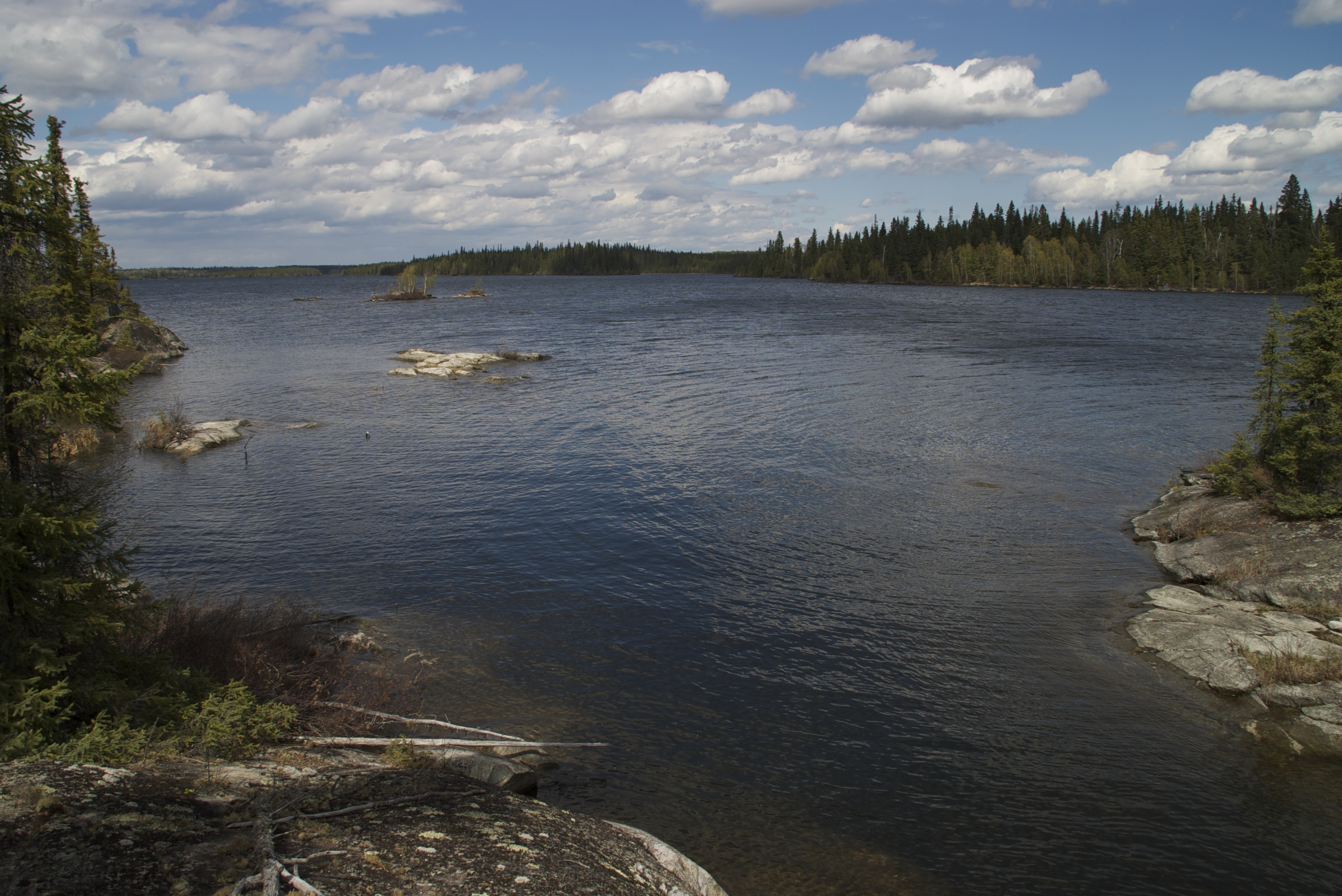 Looking north from island, showing pre-cambrian rocks of the Canadian shield